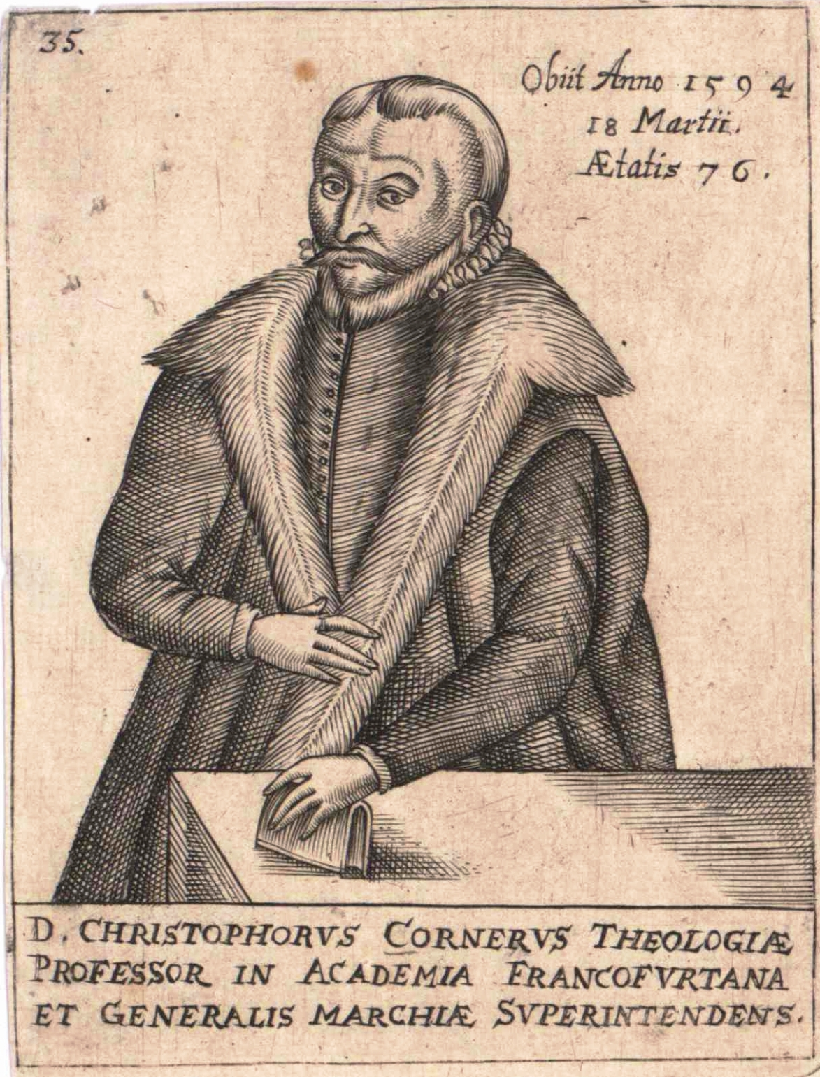 Christophorus Cornerus (1518–1594)